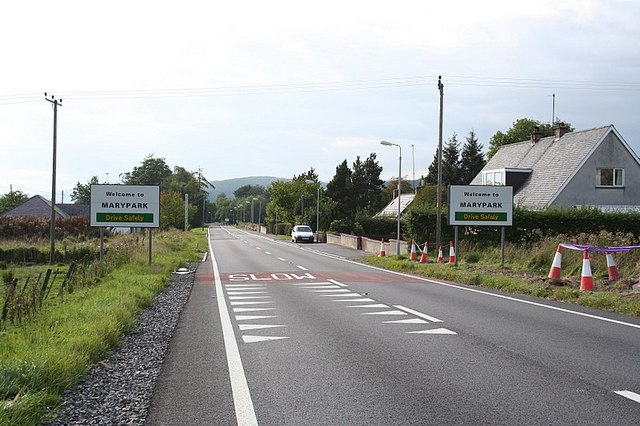 The Speyside hamlet of Marypark.